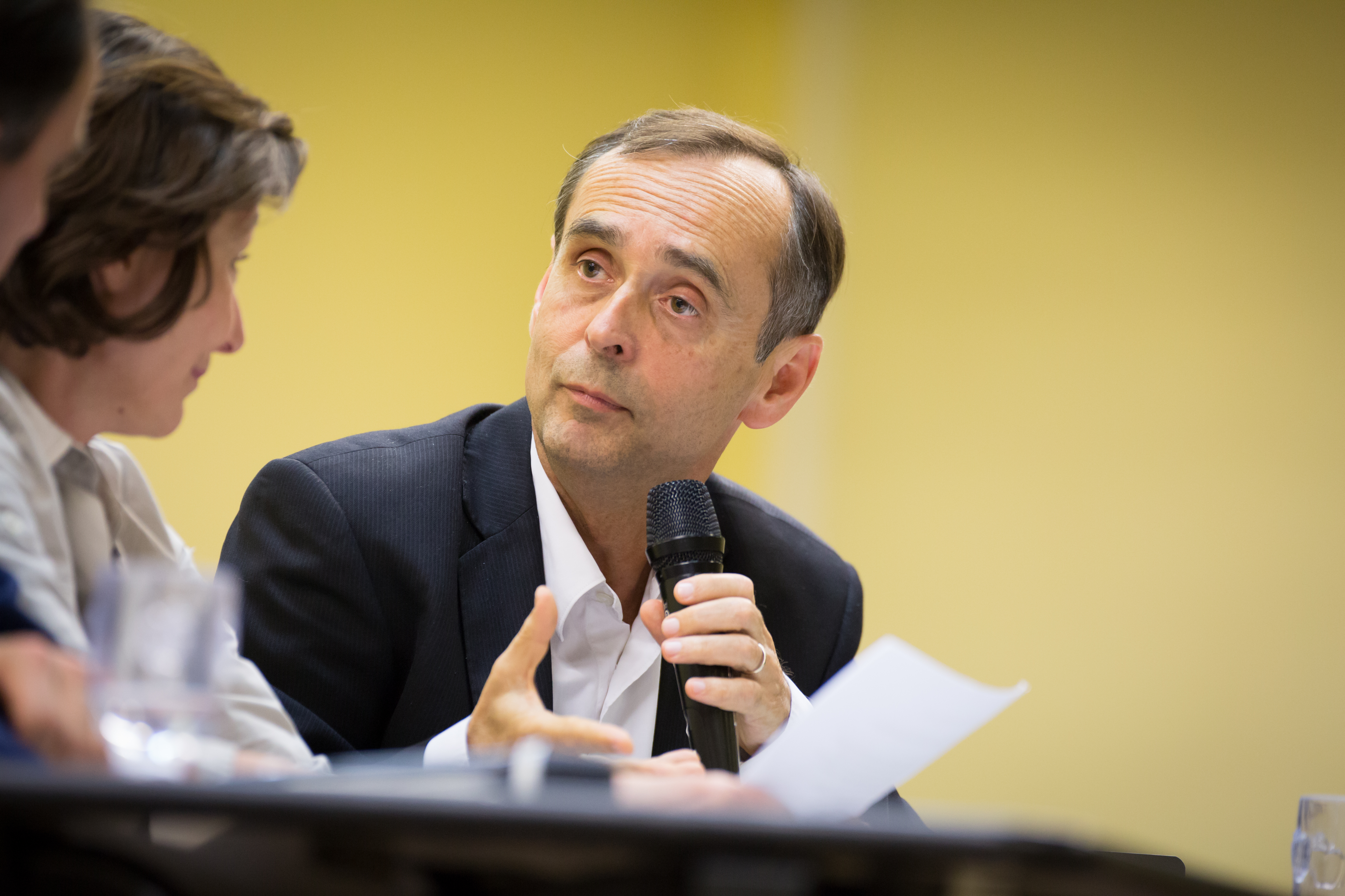 Robert Ménard (mayor of Béziers, with the support of Front National) taking part in a conference in Toulouse (France).